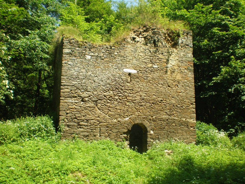 Castle ruins Pomezná, Cheb District, Czech Republic